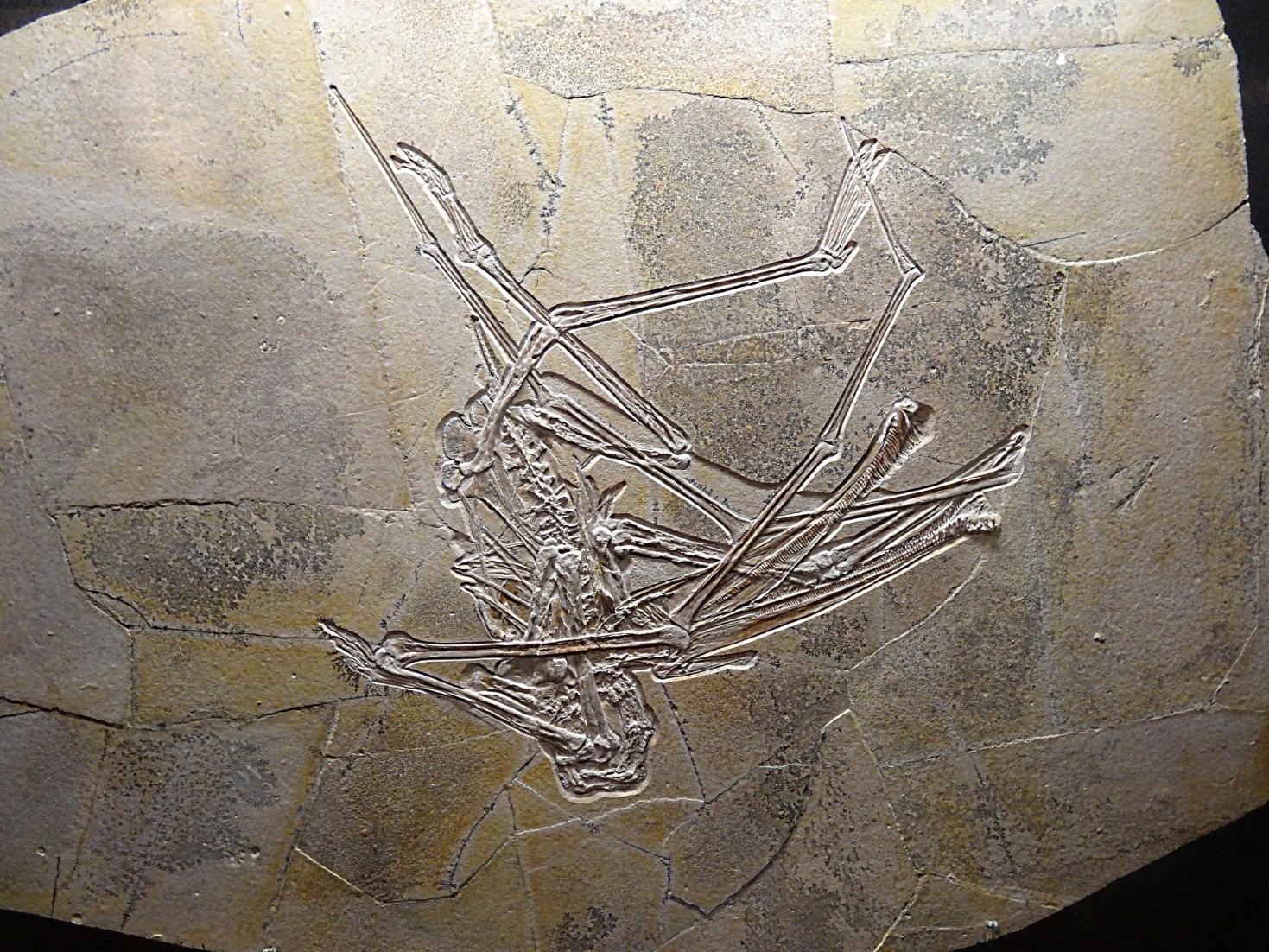 A not yet named/scientifically described pterodactyloid pterosaur, presumably a member of the family Ctenochasmatidae, from the Wattendorf platy limestone (Upper Jurassic) of the Franconian Jura, Bavaria, S Germany